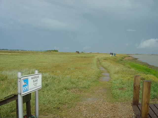 RSPB nature reserve of Havergate Island. Photo taken by the landing jetty looking north-east towards Orford, 21st August 2006 - a very stormy day.